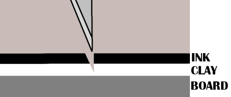 This is a cross section of a standard scratchboard. By removing the black ink with a sharp tool you expose the white clay.